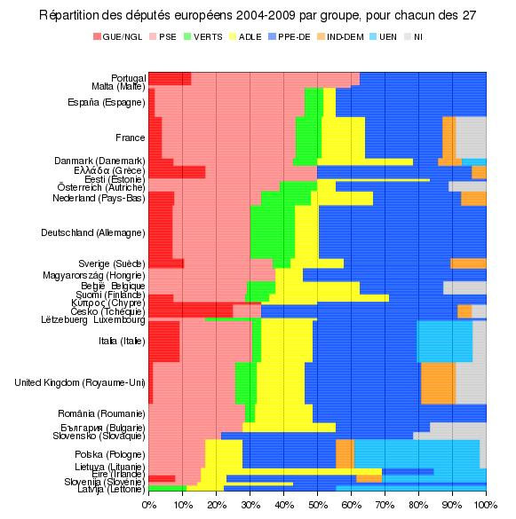 graph showing verticaly the proportion of members by country, and horizontaly the proportion of Members by parliamentary group for each country. 2004-2009 term.